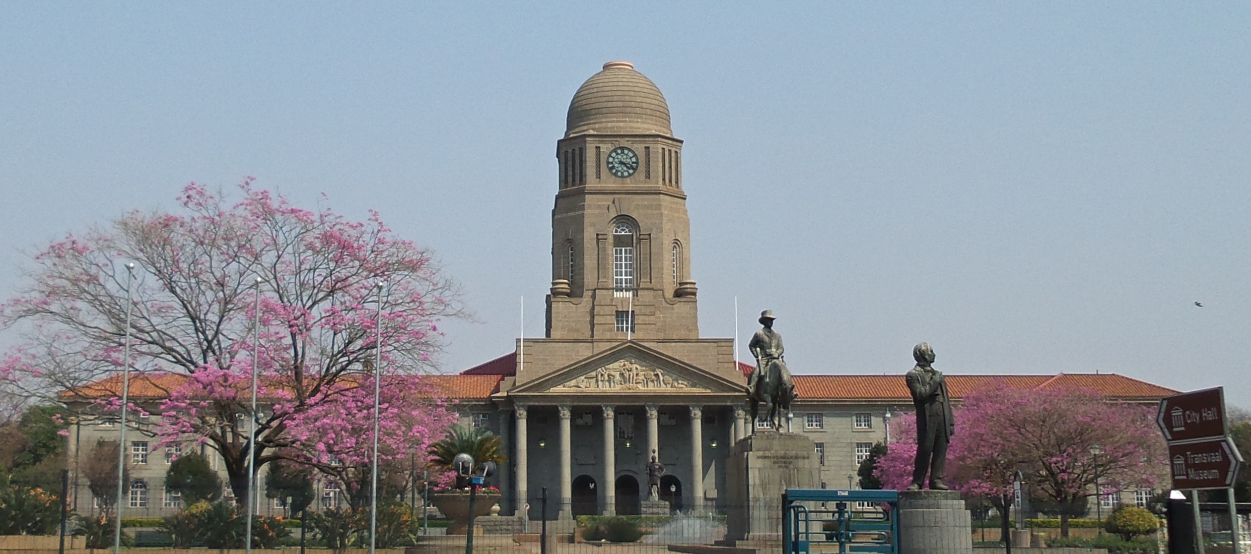 The Transvaal Museum is a grand-neo classical building, extremely well detailed and forms an important group together with the Old Pretoria City Hall. It is a fine example of the work of an important colonial architect Mr. J.S. Cleland. This media shows a South African Protected Site with SAHRA file reference 9/2/258/0100.